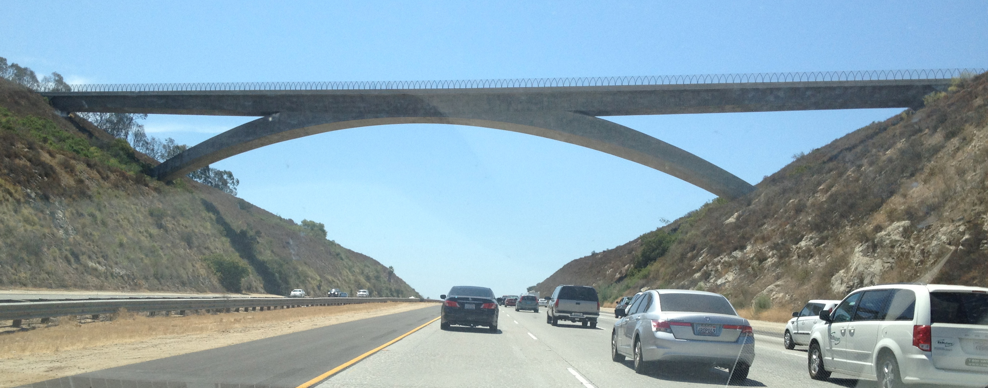 Lilac Road Bridge, San Diego, California. Spans Interstate 15.